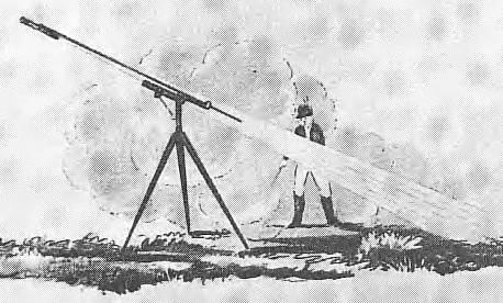 Start of a Congreve rocket from a tripod